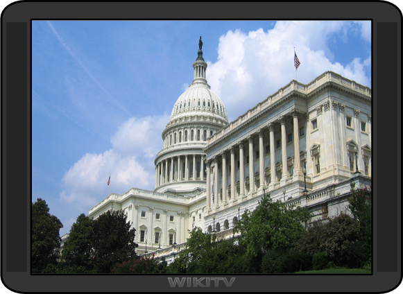 Aspect Ratio 16:9 squeezed